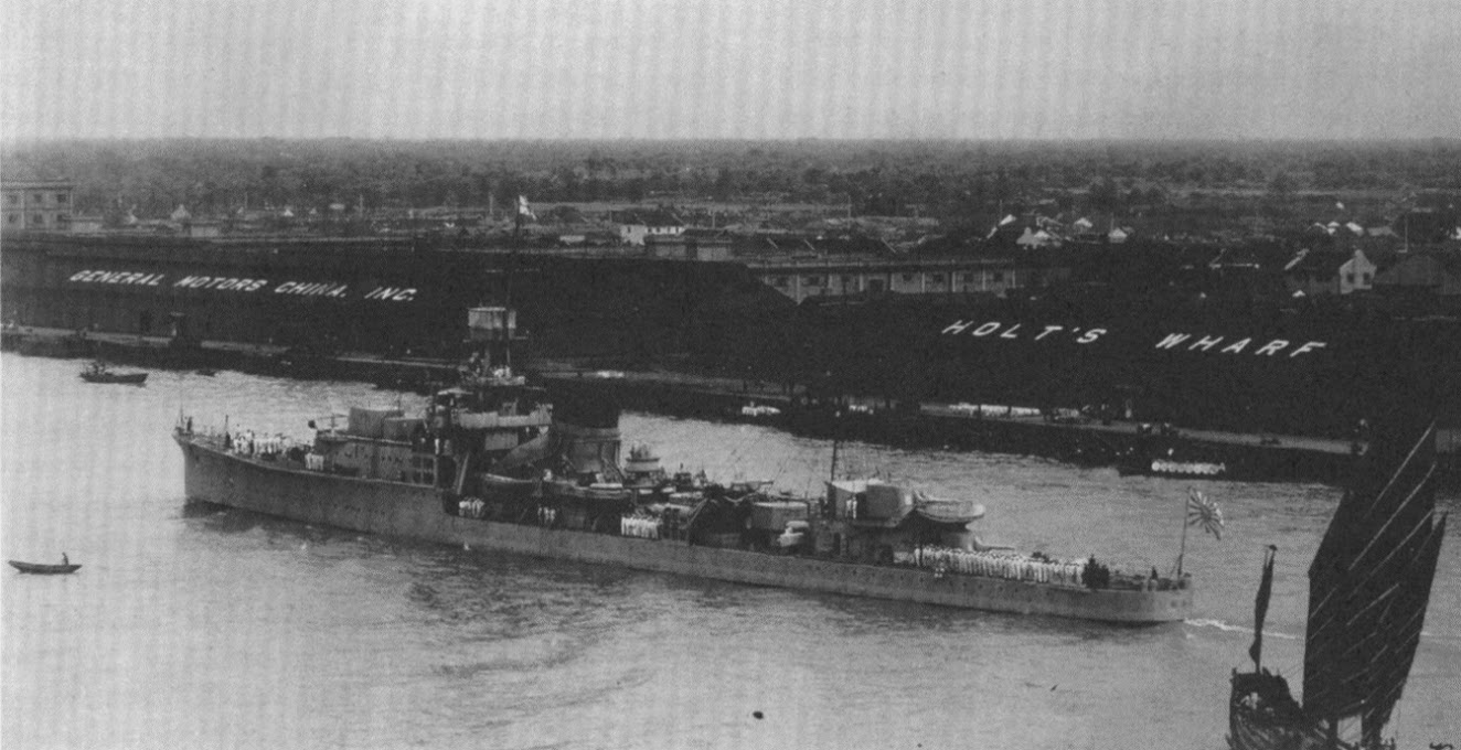 The japanese light cruser Yubari in China as flagship DesRon 5.